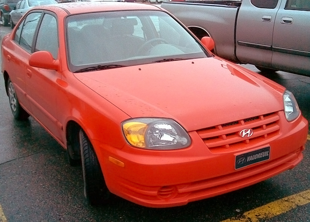 2003-2005 Hyundai Accent photographed in Montreal, Quebec, Canada.